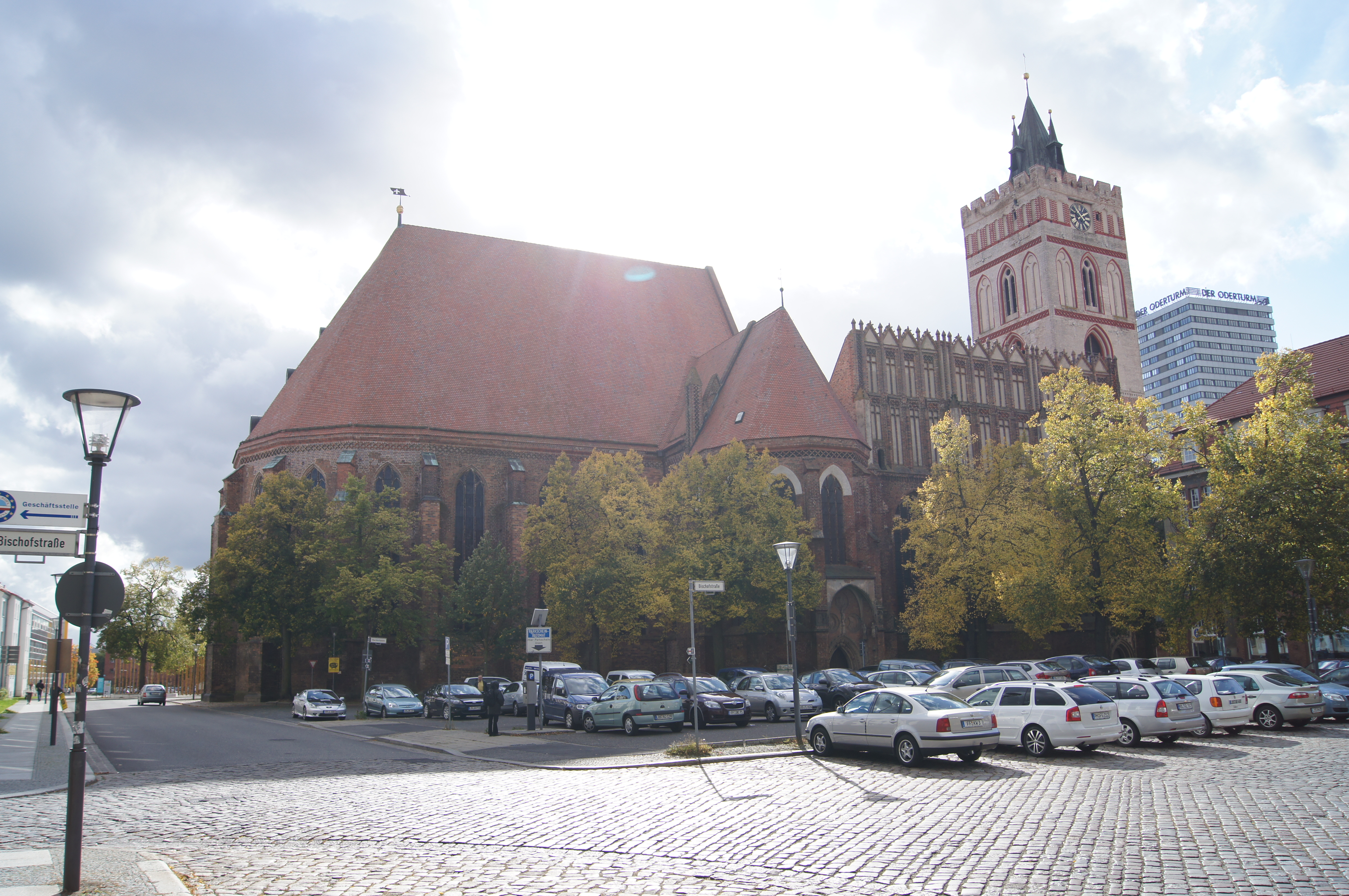 Marienkirche Frankfurt (Oder), Brandenburg, Germany